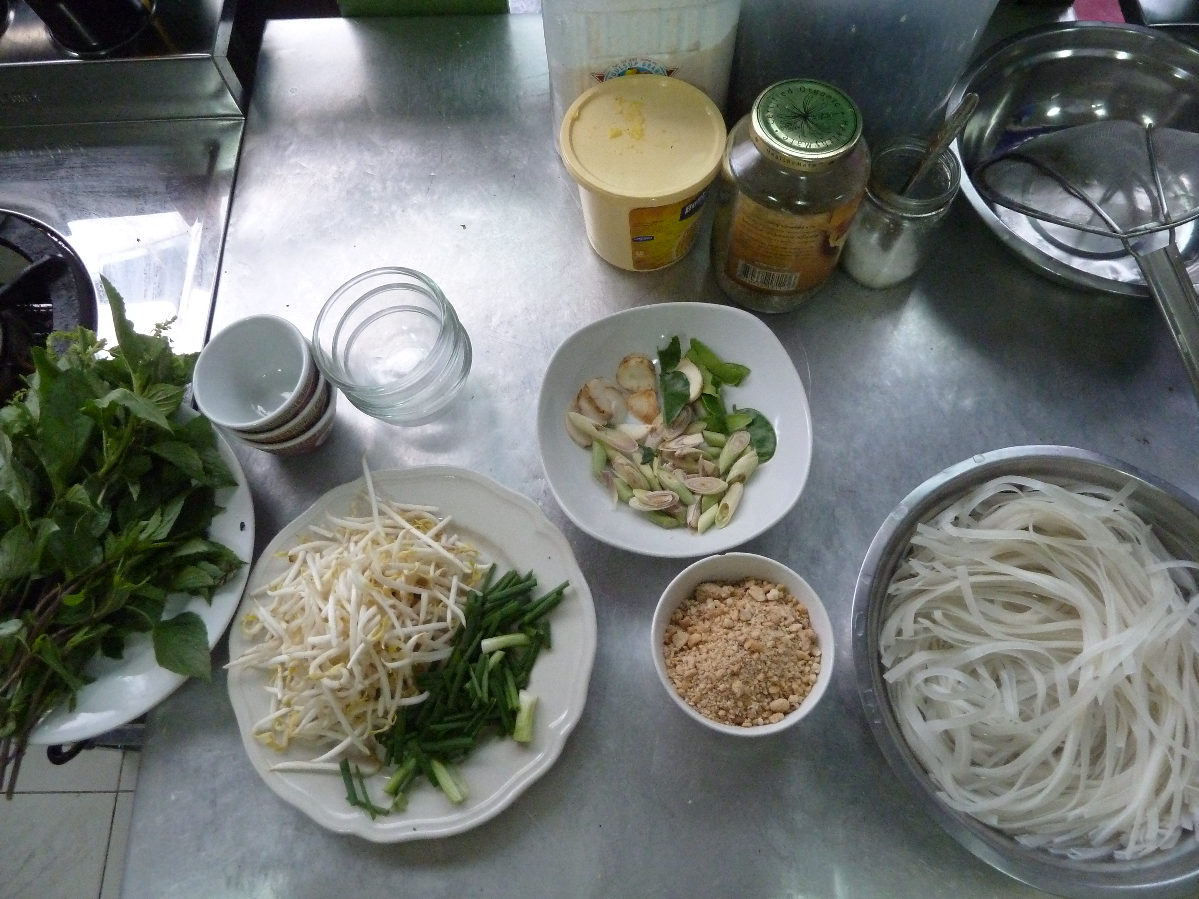 May Kaidee's Cooking School, Bangkok, Thailand